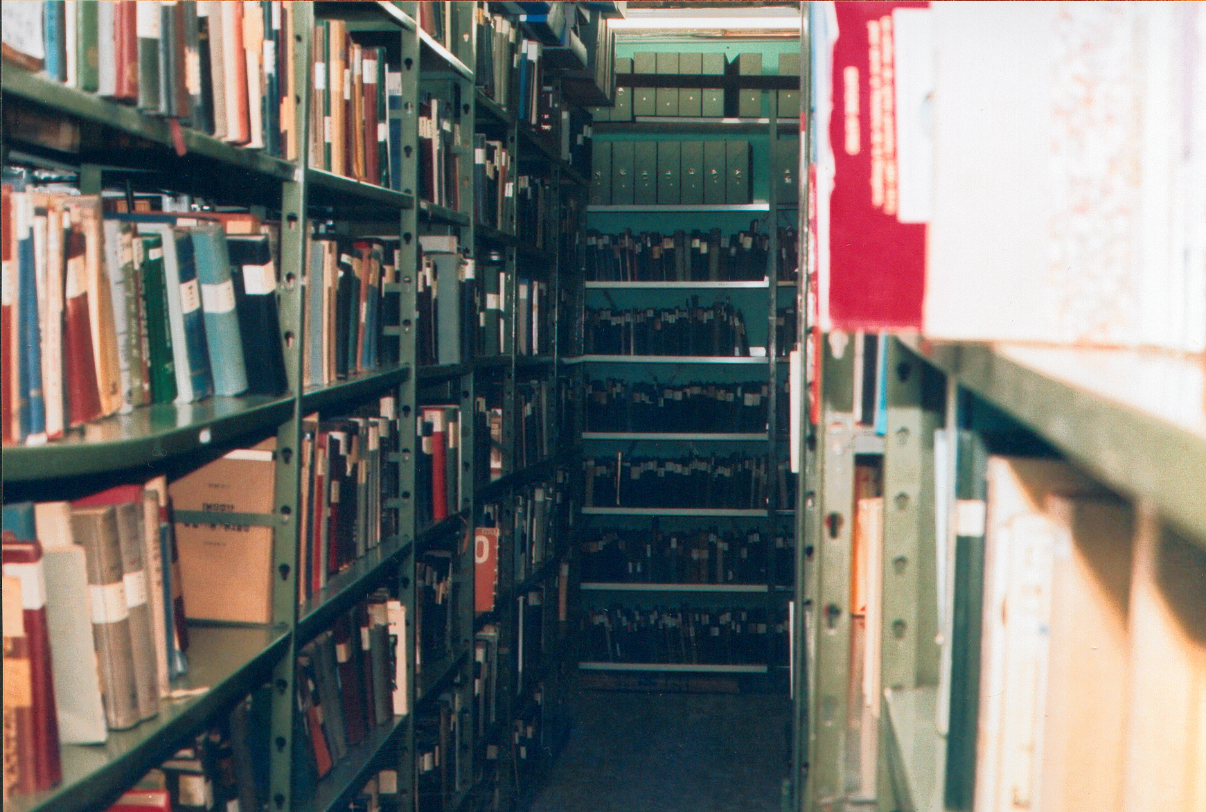 The Storage of the books of the Bibliothek Medem